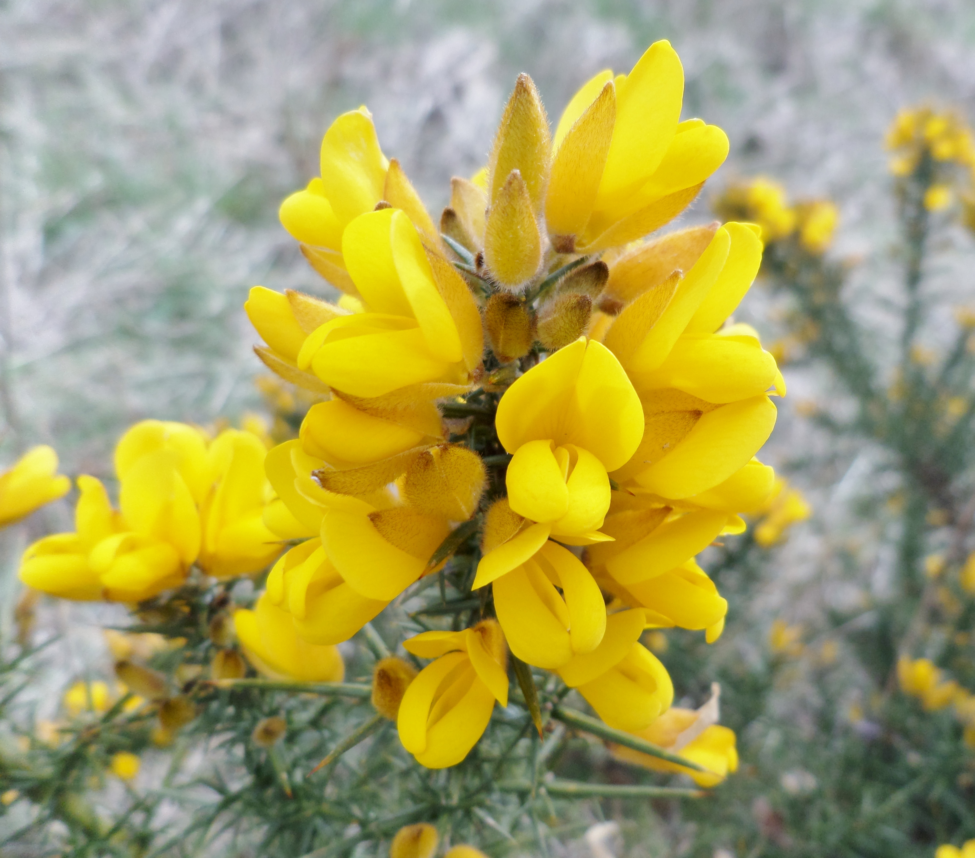 Gorse, furze or whin (Ulex europaeus) flowers at Barrmill, North Ayrshire, Scotland.